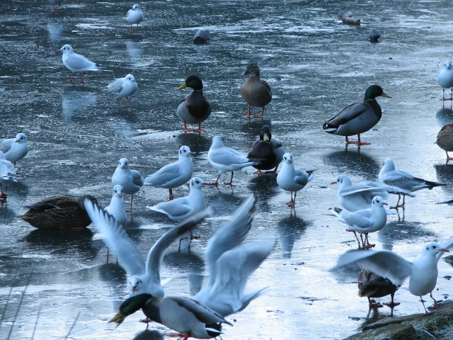 Bird life, Blackford Pond Gulls and ducks battle it out for bread crumbs on a frozen pond.